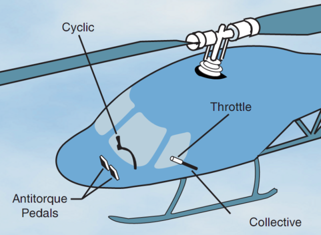 Source: Rotorcraft Flying Handbook: FAA Manual H-8083-21. Washington, DC: Flight Standards Service, Federal Aviation Administration, U.S. Dept. of Transportation, 2001. ISBN 1-56027-404-2.